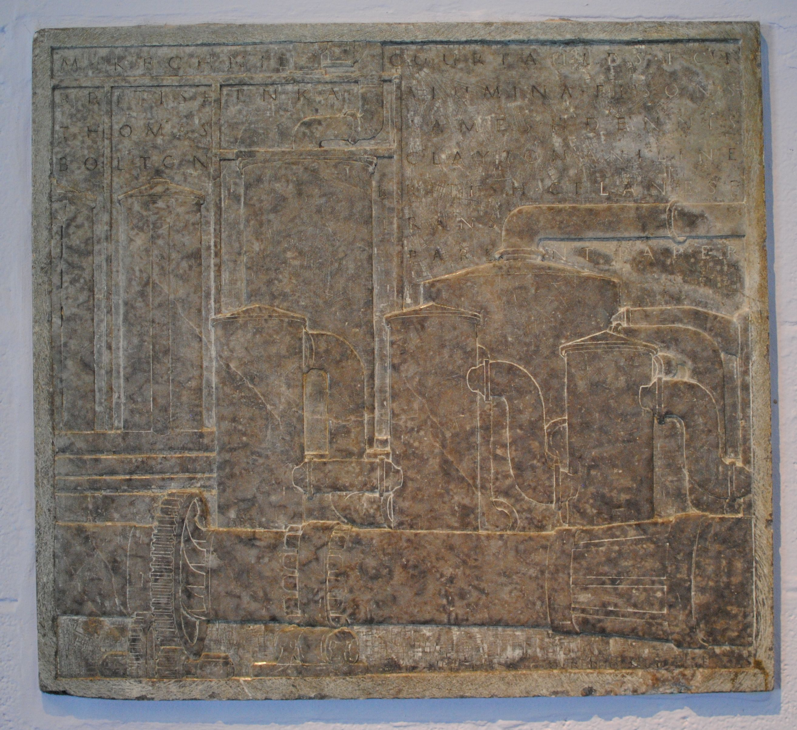 Relief carving of a rotary anhydrite kiln and sulphuric acid unit, made from a piece of anhydrite, by Ophelia Gordon Bell. The plaque was formerly displayed in the entrance hall of the United Sulphuric Acid Corporation (USAC) offices at their Green Oaks Works. The plaque also includes the names of member companies of USAC. It is now in the café at Catalyst Science Discovery Centre, Widnes, England.